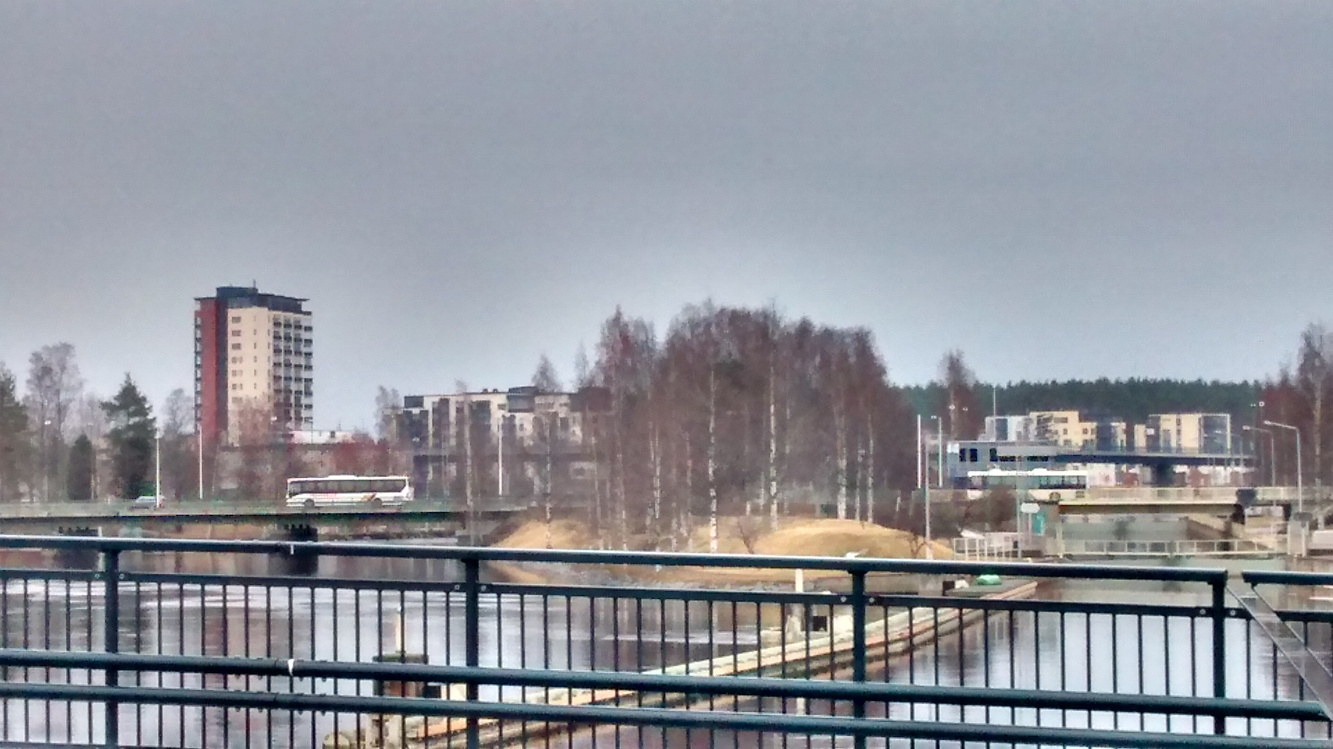 Penttilä district in Joensuu. Three bridges over Pielisjoki River.